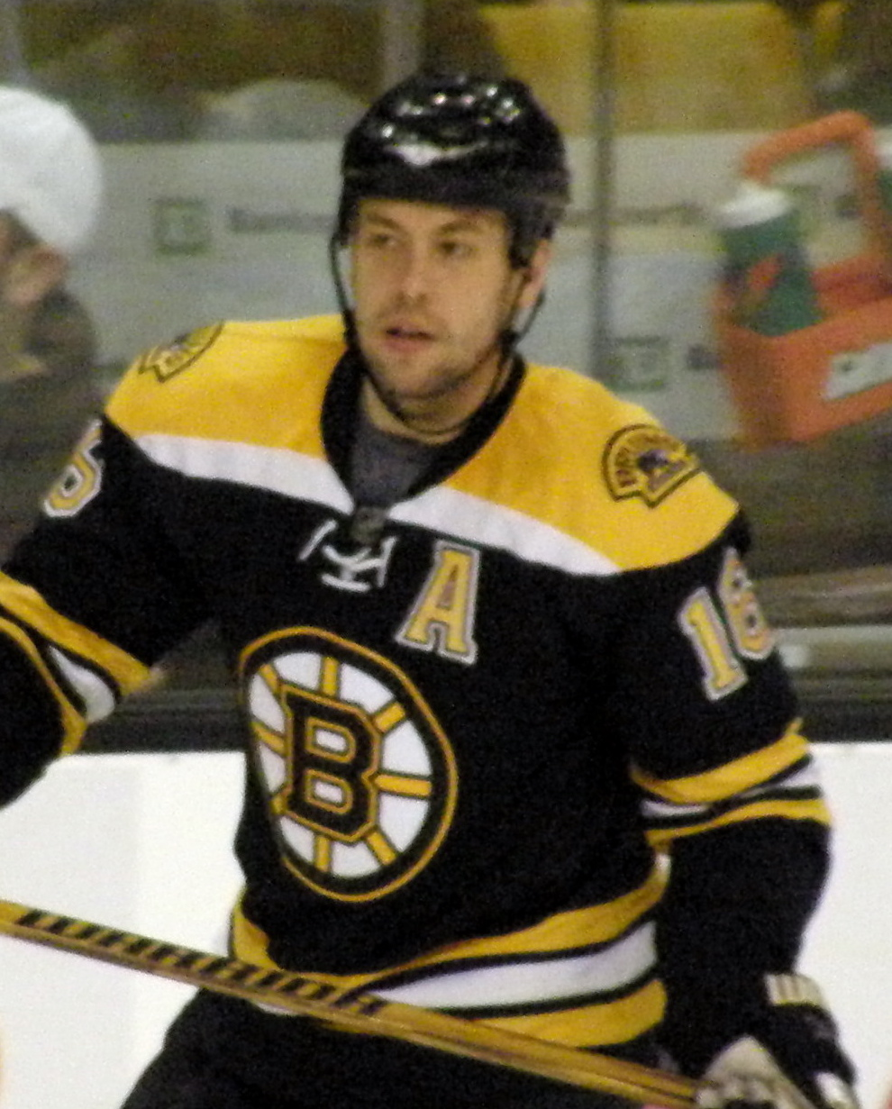 Boston Bruins left wing Marco Sturm taken at TD Banknorth Garden, Boston MA, 2008-01-08 during game between Boston Bruins and Carolina Hurricanes by Dan4th Nicholas